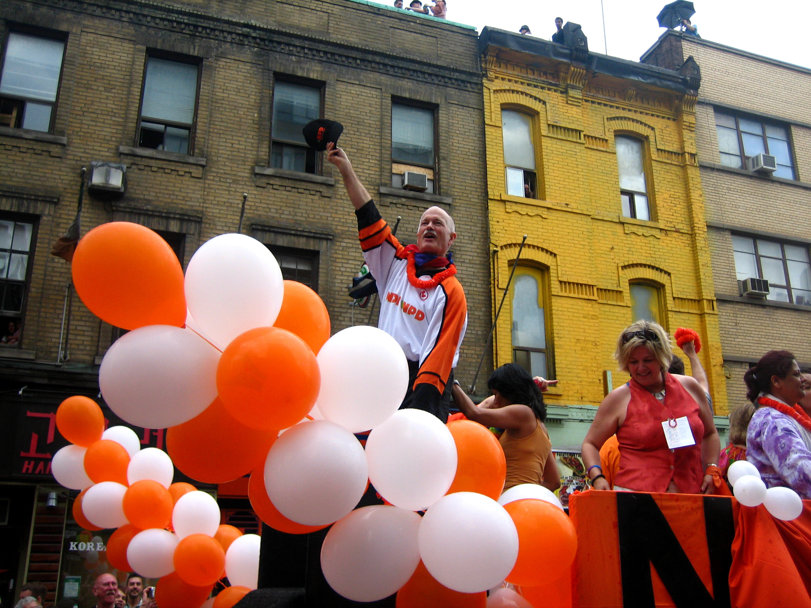 Jack Layton appearing in Toronto's Pride Parade 2009.